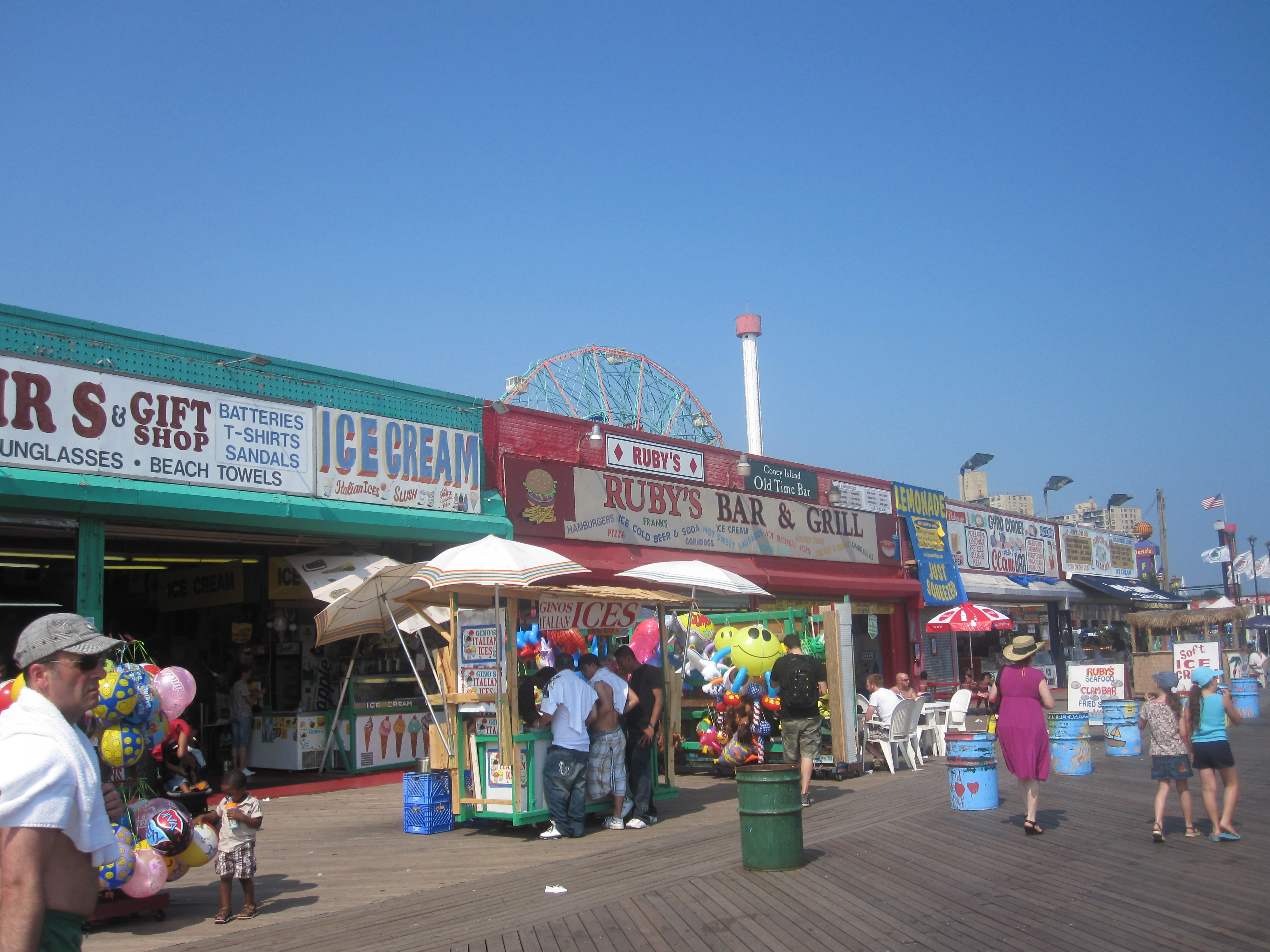 On the Boardwalk, east of Stillwell Ave.